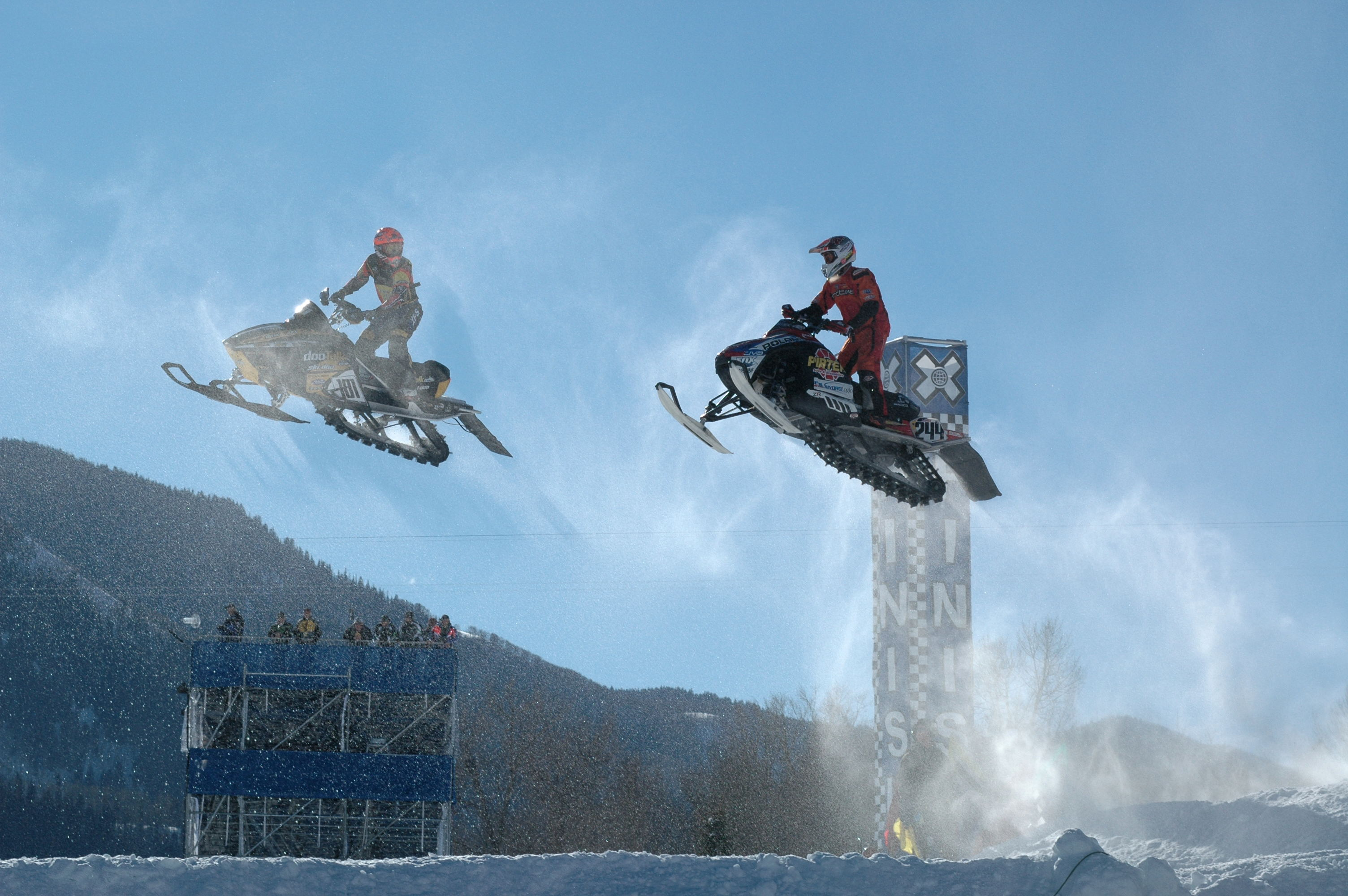 two snowmobiles at 27. Januar 07 in Aspen